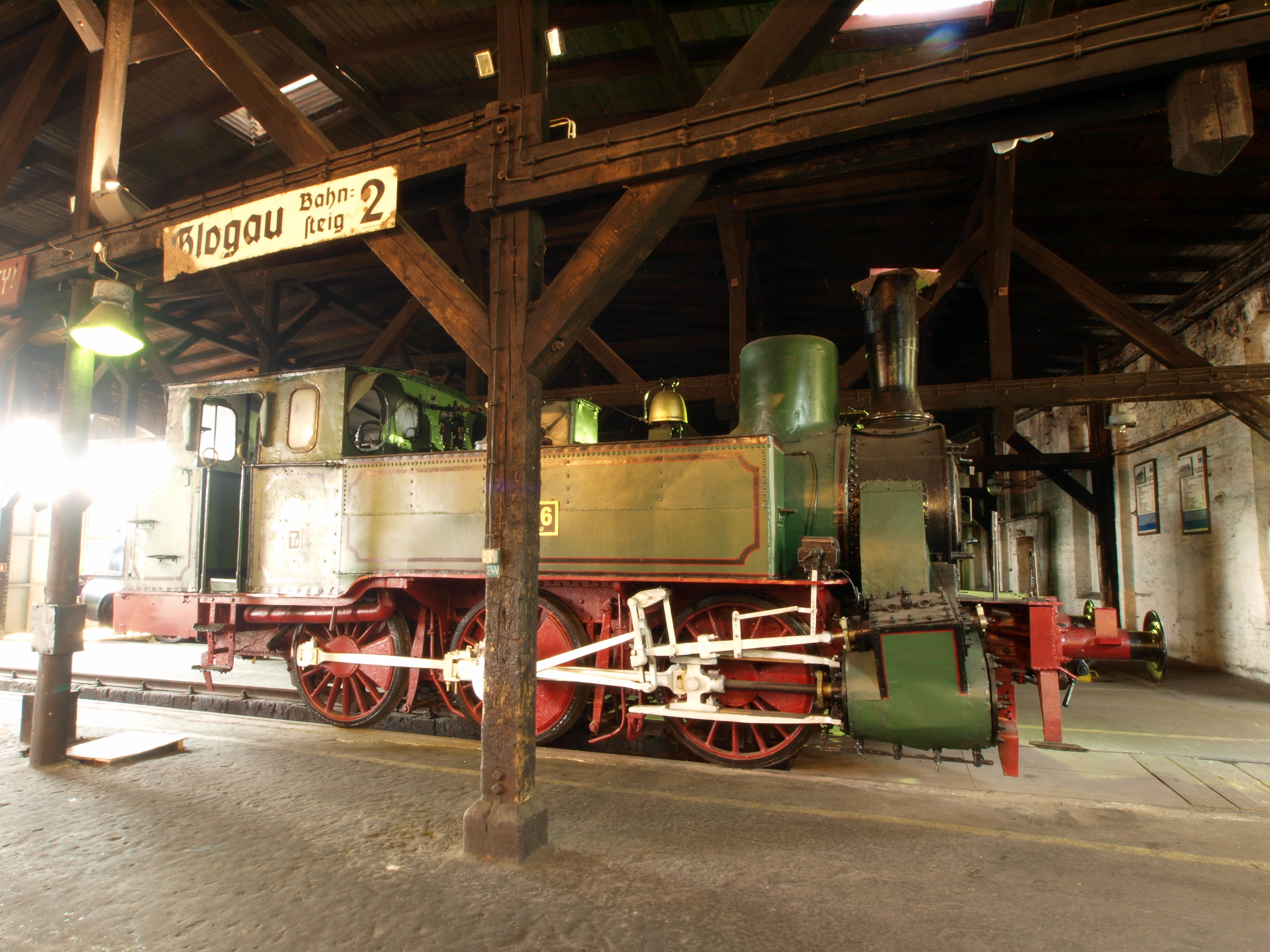 1836 Breslau at the Museum of Industry and Railway in Lower Silesia.